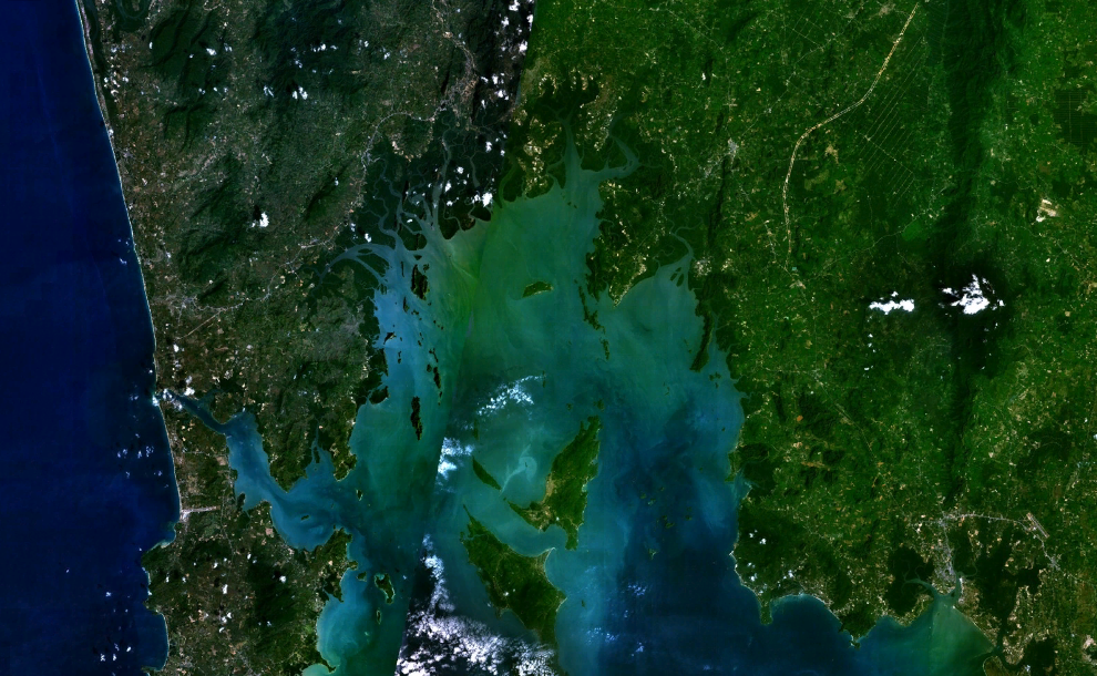 Phang Nga Bay from Space